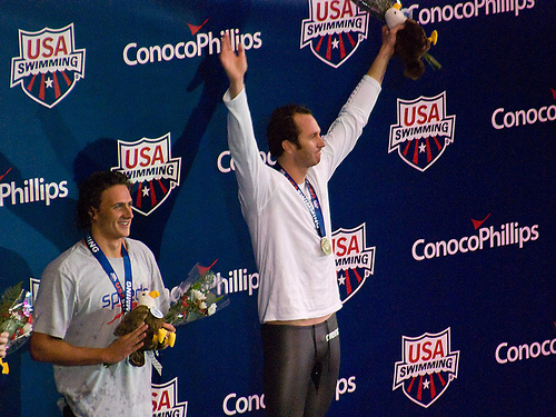 Aaron Peirsol at the medal-awarding ceremony at the 2009 National Championships.